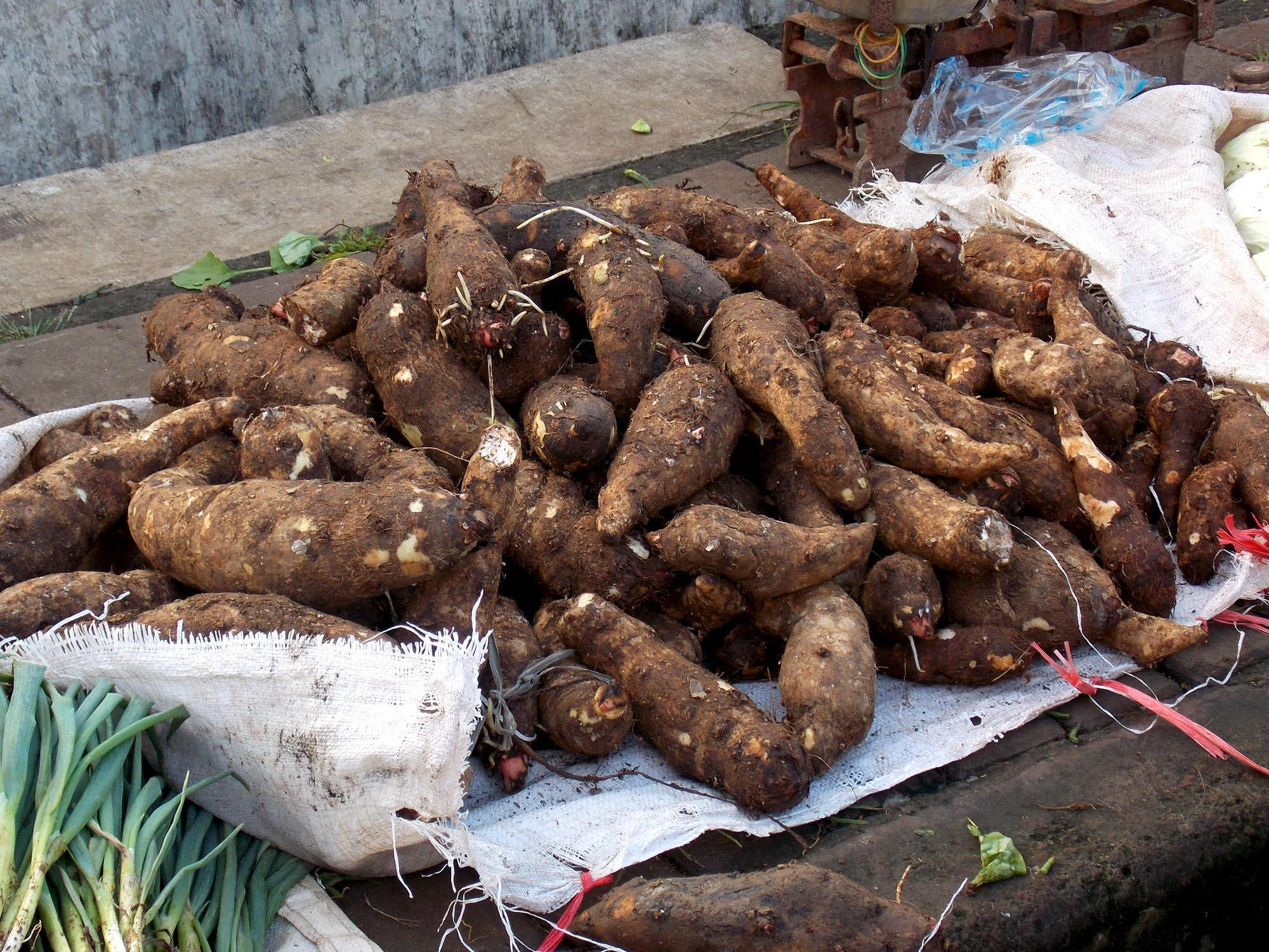 Tannia, Xanthosoma sagittifolium; corms. Sold at roadside near Pasar Anyar traditional market in Bogor, West Java, Indonesia.